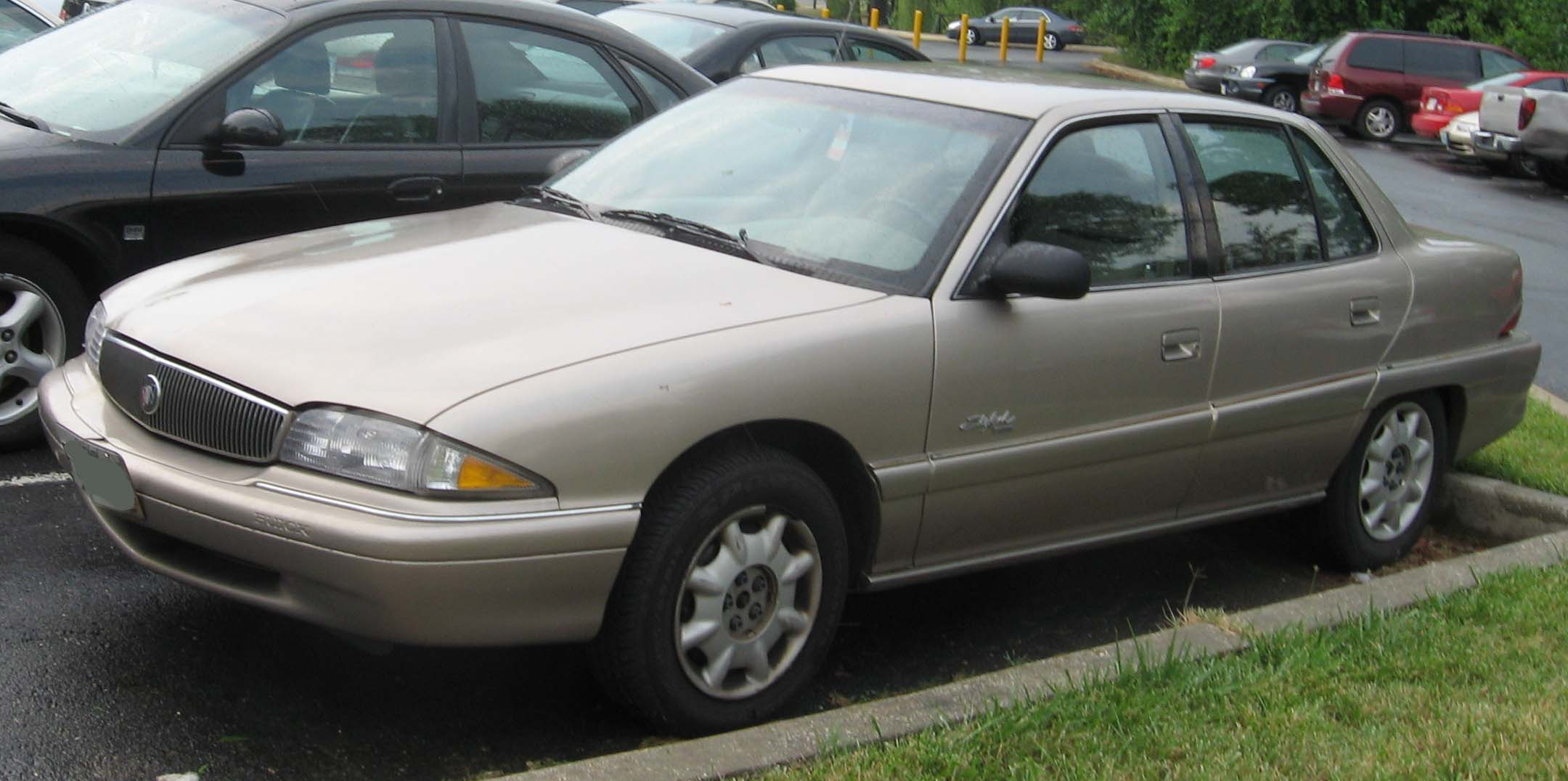 1996-1998 Buick Skylark photographed in USA.